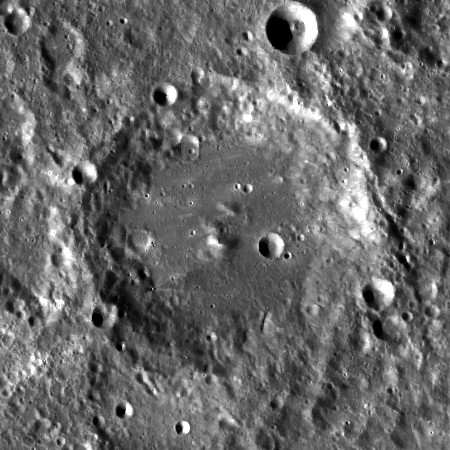 LROC image